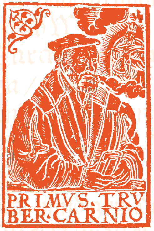 Portrait of Primož Trubar as it was published on the cover of glagolic New testament. The (red) color differs from the original (brown). Copper engraving.